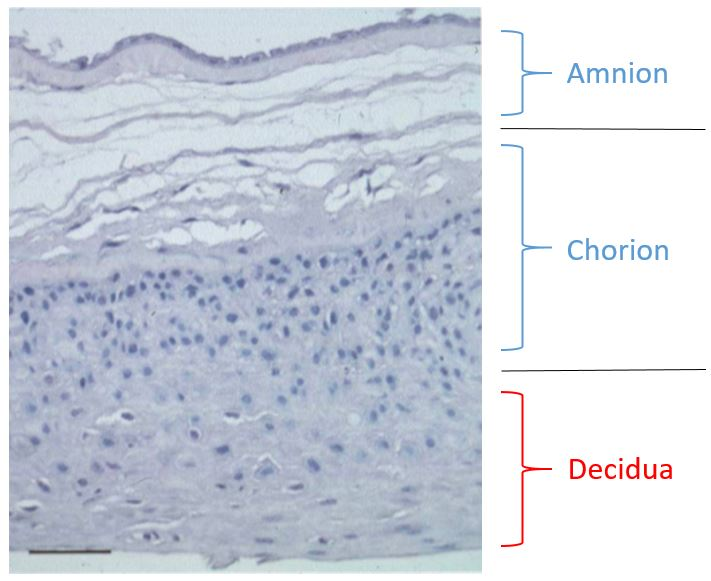 Diagram of fetal membrane